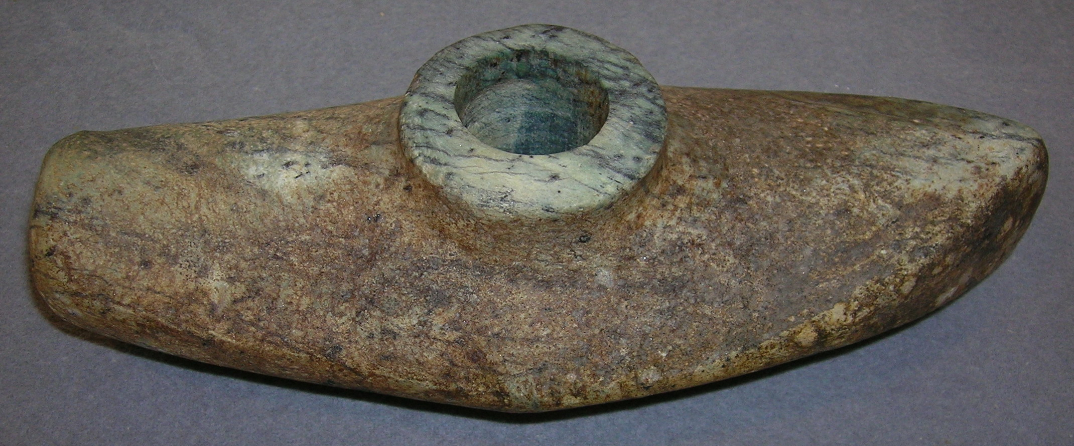 Socalled «battle-axe» (Streitaxe) or boat axe of Swedish-Norwegian type, 2800-2400 BC. Discovered the summer of 2003 by a Danish tourist (fisher) at the river of Eiterå, Dunderland, in Rana municipality, Nordland, Norway. Handed over to the cultural department of Rana Museum on 1 July 2004. Photo 21 May 2007 with a NIKON Coolpix 5600 5,1 Megapixel camera.